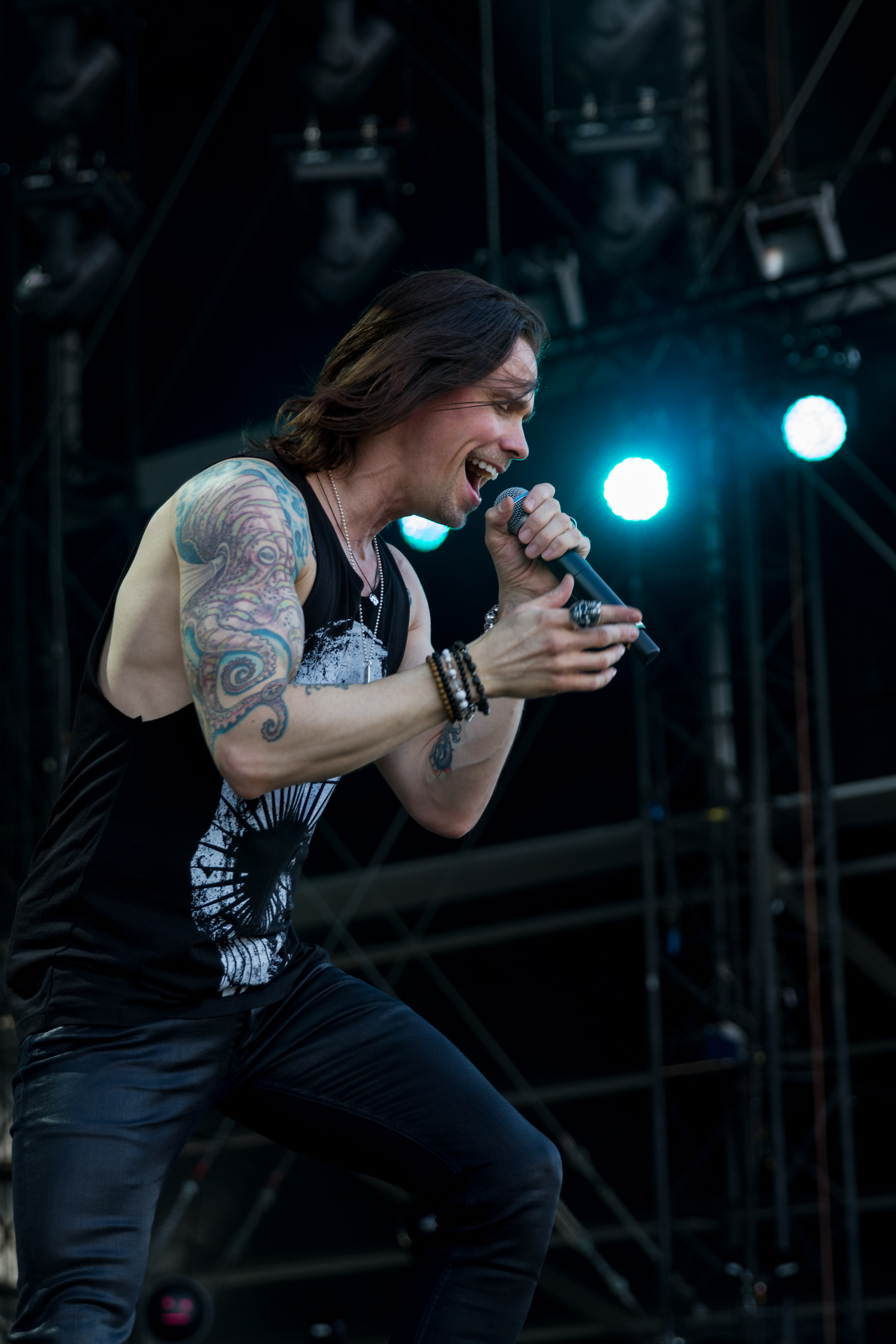 Slash feat Myles Kennedy & The Conspirators - Rock am Ring 2015